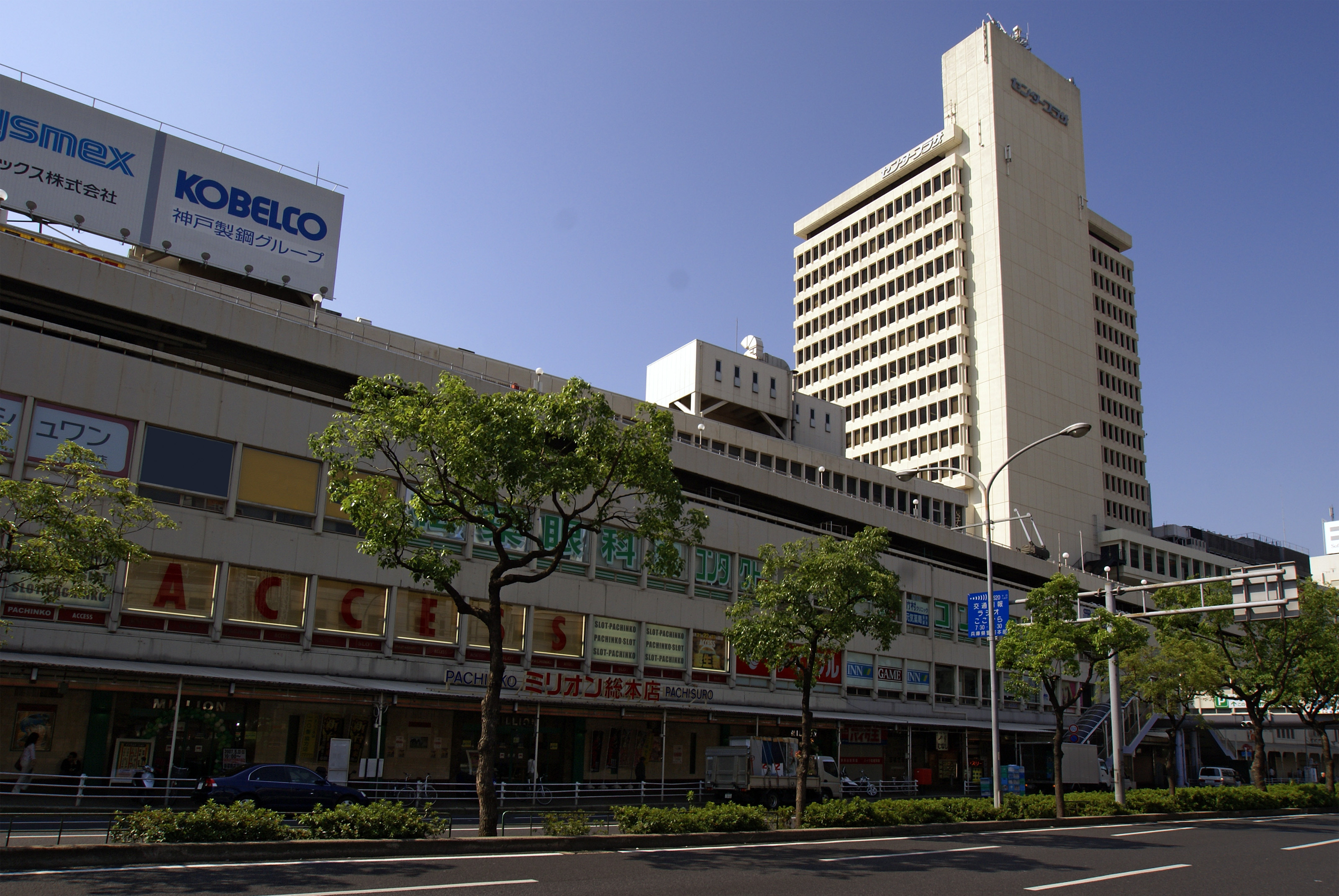 Center Plaza in Kobe, Hyogo, Japan